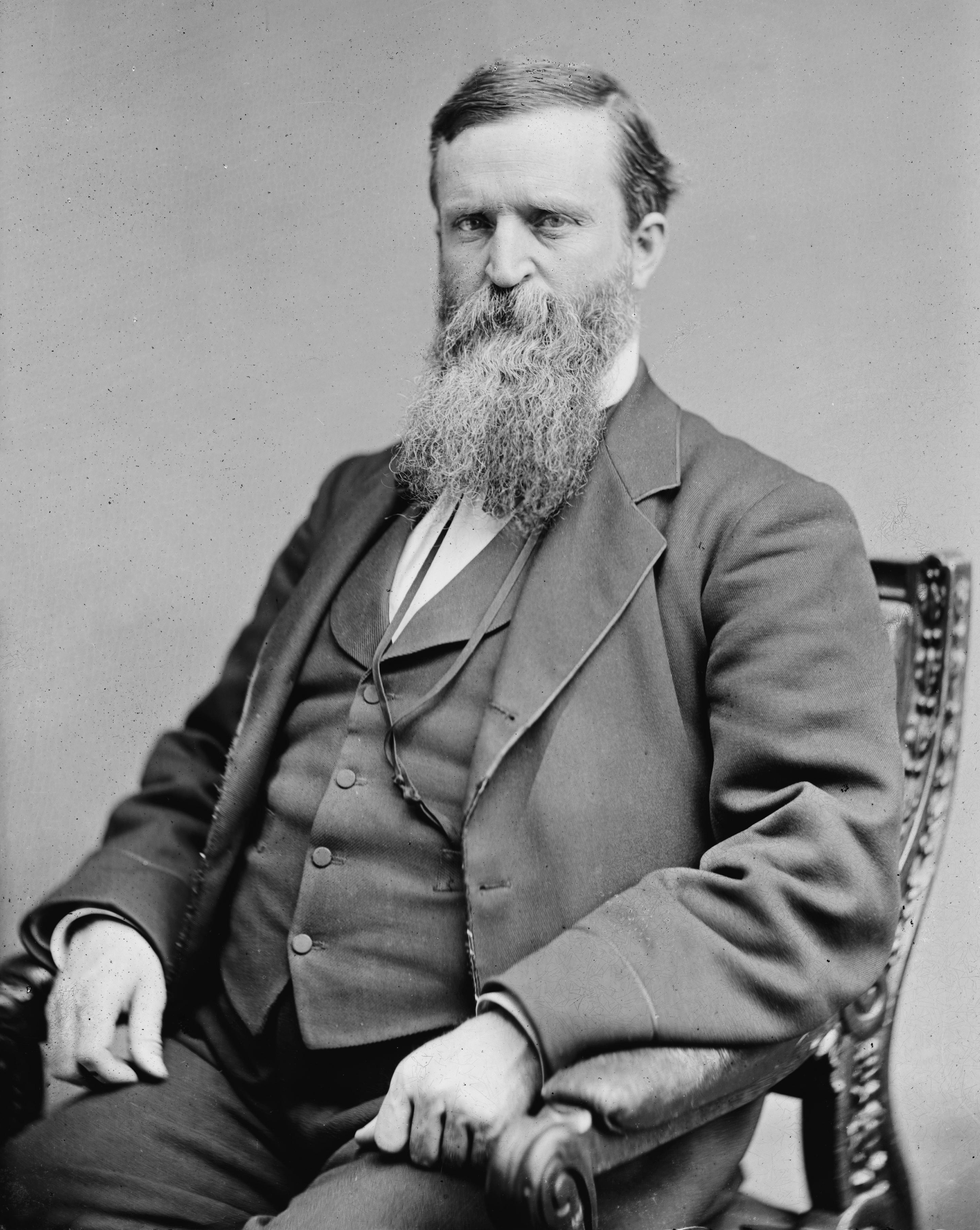 James Baird Weaver ( June 12, 1833 – February 6, 1912) was a United States politician and member of the United States House of Representatives, representing Iowa as a member of the Greenback Party. He ran for President two times on third party tickets in the late 19th century. An opponent of the gold standard and national banks, he is most famous as the presidential nominee of the Populist Party in the 1892 election.